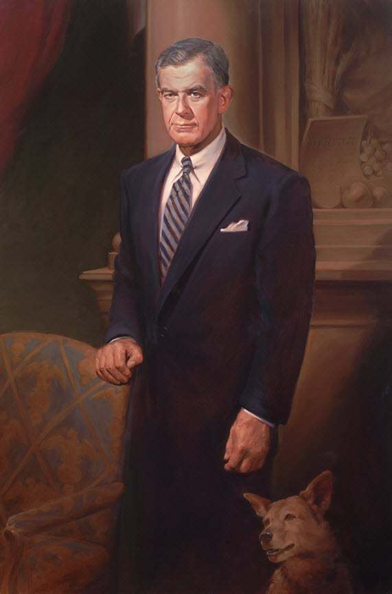 Tom Foley, member of the United States House of Representatives from Washington